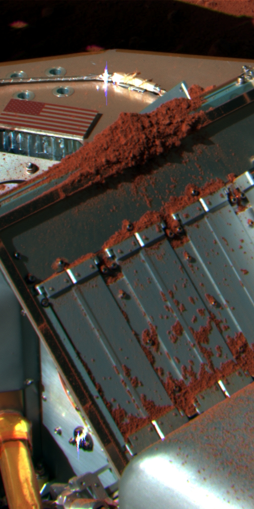 NASA's Phoenix Mars Lander's Surface Stereo Imager took this false color image on Sol 72 (August 7, 2008), the 72nd Martian day after landing. It shows a soil sample from a trench informally called "Rosy Red" after being delivered to a gap between partially opened doors on the lander's Thermal and Evolved-Gas Analyzer, or TEGA.